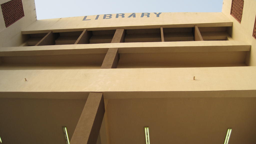 The main library building